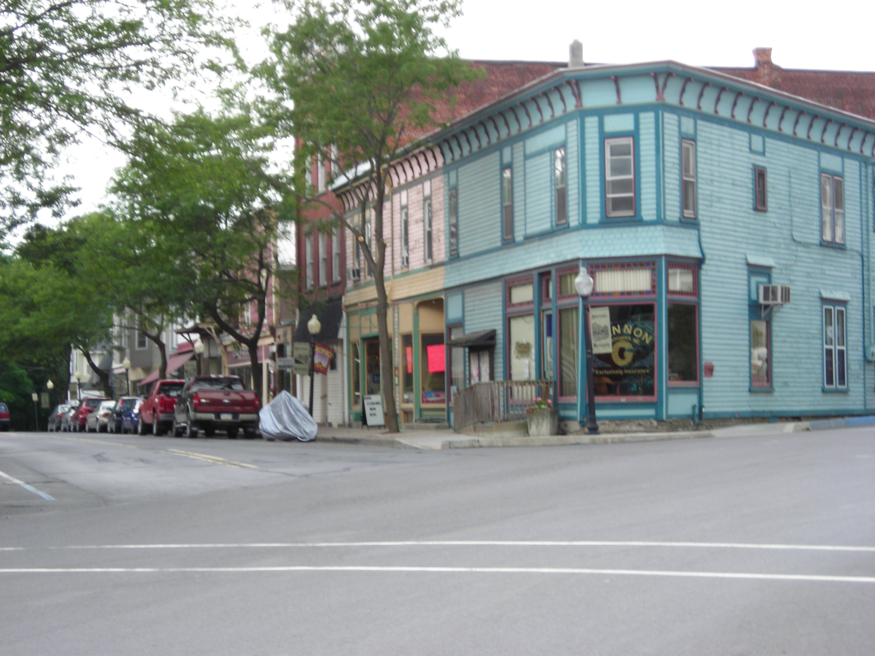 Downtown Wylausing, Pennsylvania showing Victorian buildings. Corner of Church and Main looking south